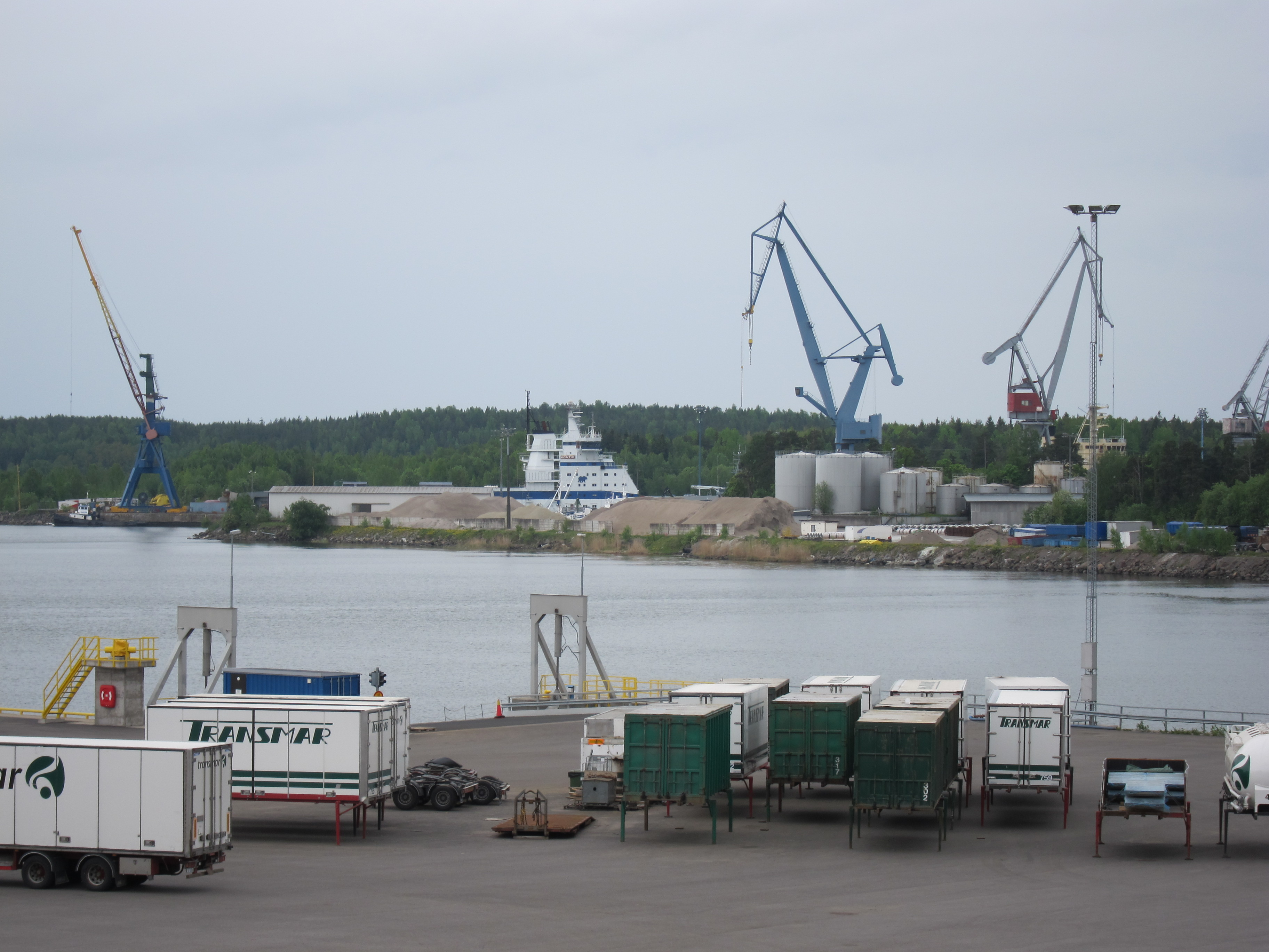 Finnish icebreakers Kontio and Urho (on the right behind trees) docked for repairing at Turku Repair Yard, Naantali, Finland. In the foreground is Port of Naantali. Photographed from Port of Naantali.